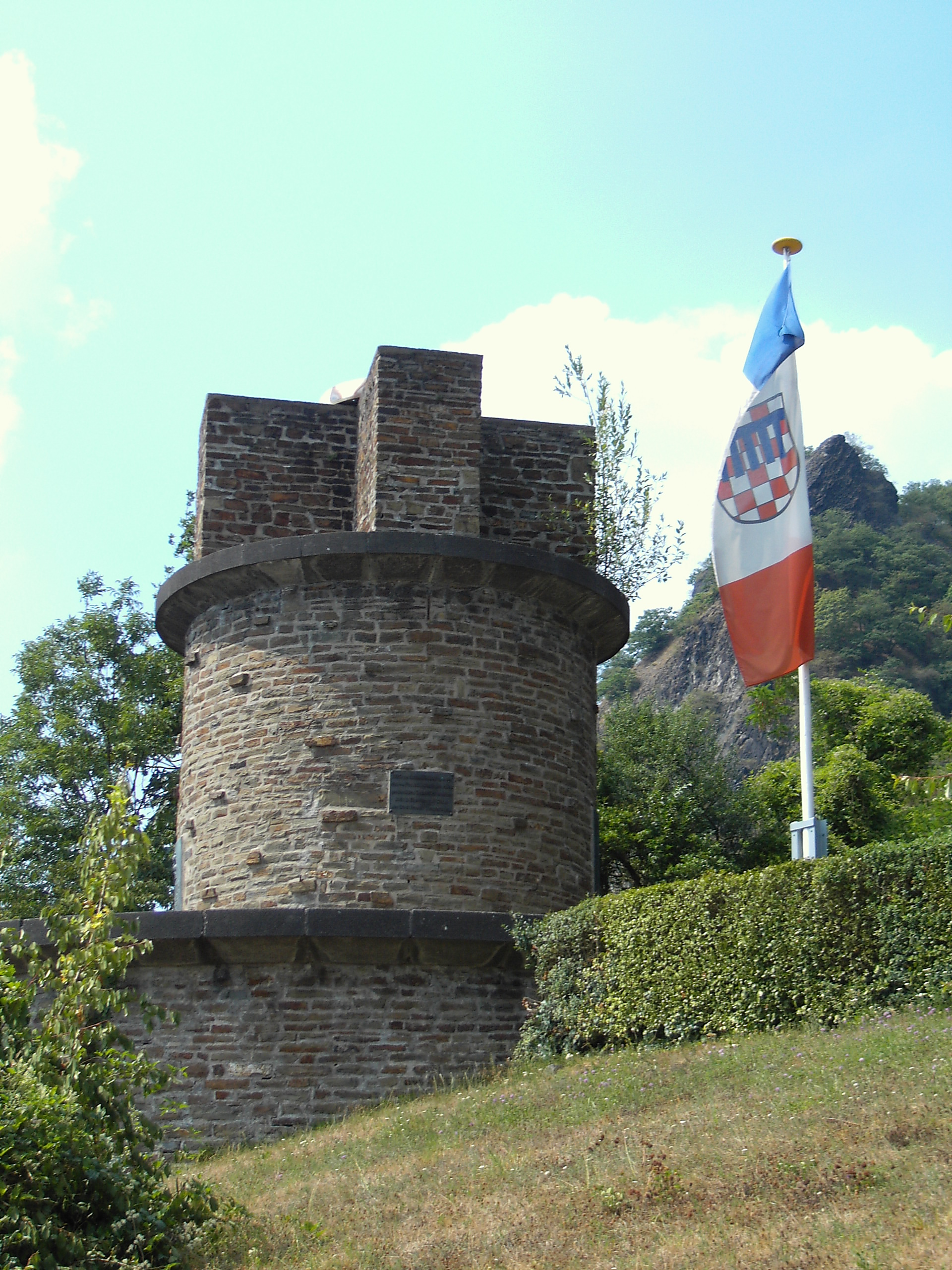 Uhlans memorial at the wineyards in Bad Honnef-Rhöndorf